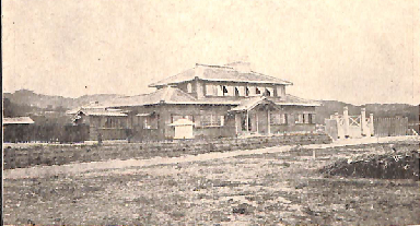 This is the Mie prefecture fisheries experimental station in Meiji period.